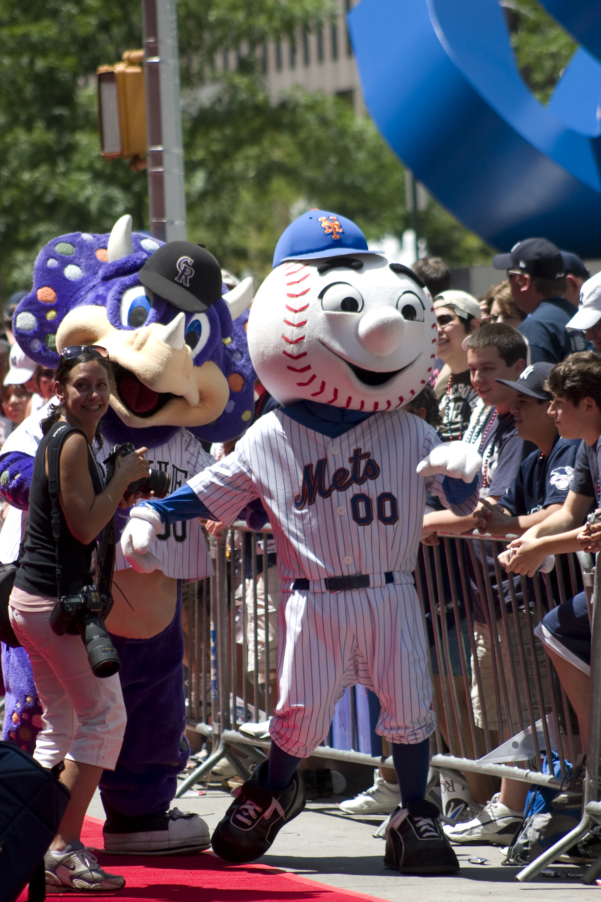 Baseball mascots Dinger (behind woman) and Mr. Met. © Rubenstein, photographer Martyna Borkowski